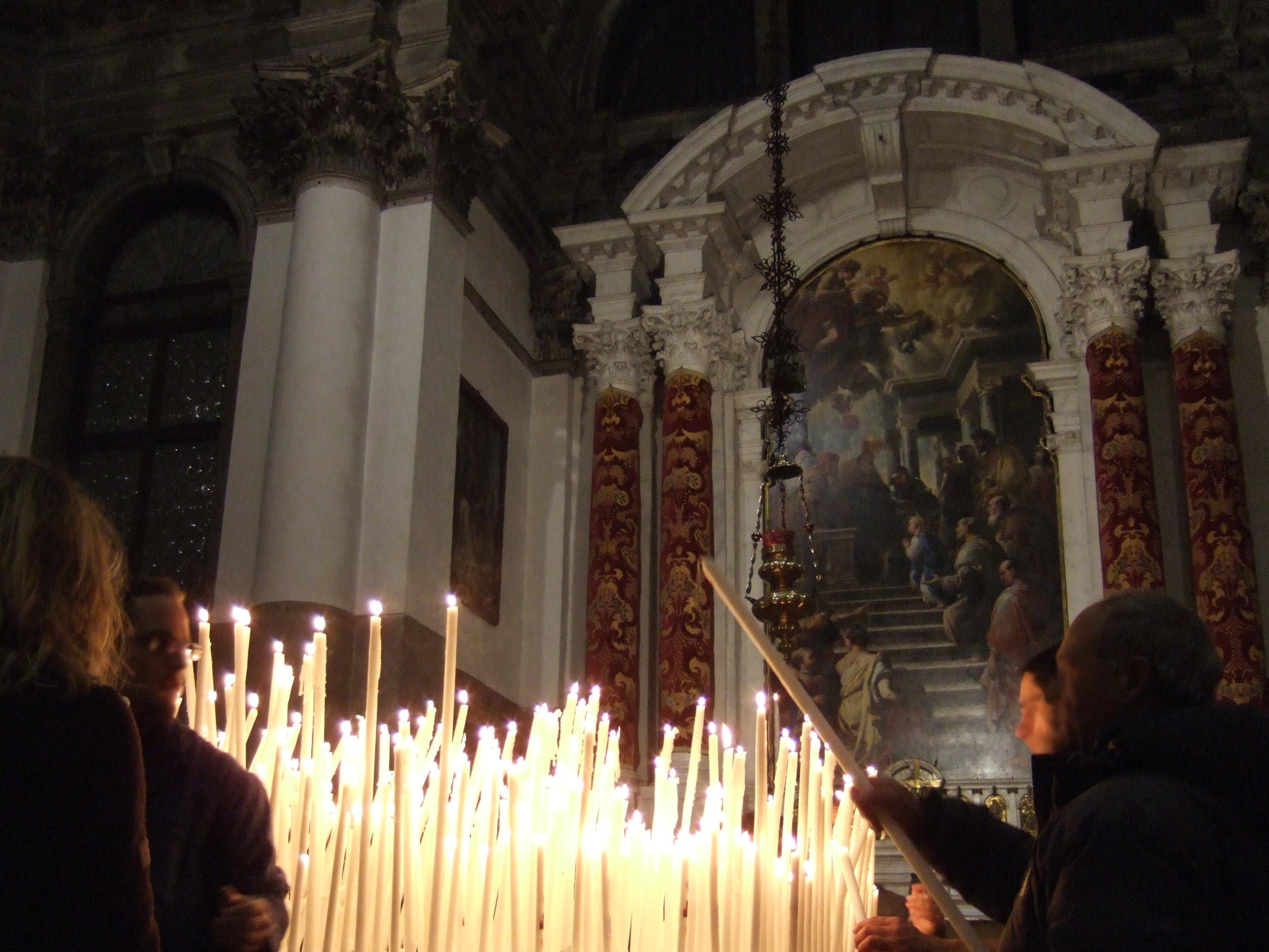 interior on 21. November 2008.